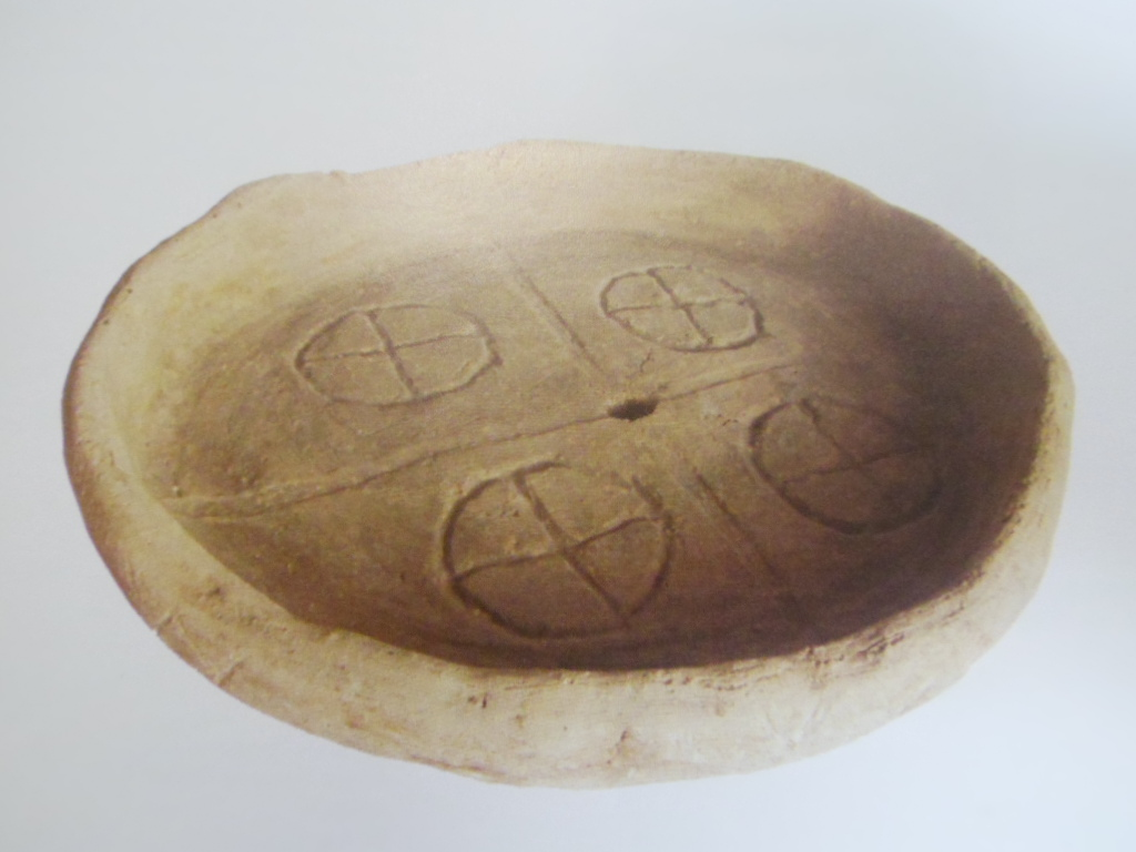 Çerep, an ancient pottery art, made of housewifes for baking bread, it was used until twentieth centry